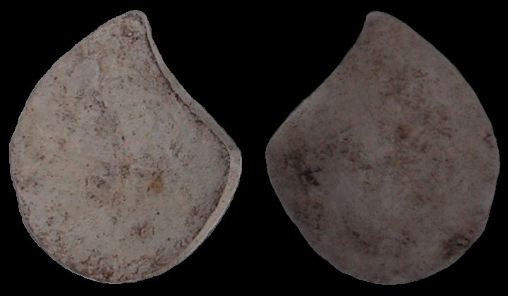 Helix pomatia - Roman snail; epiphragma, largest height: 27.6 mm; Collected at Fonte Bracca, Val Brembana, Bergamo, Italy, 1974 by Tom Meijer. Inner surface on the left, outer surface on the right